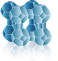 Clinoptilolite Zeolite Cage Structure